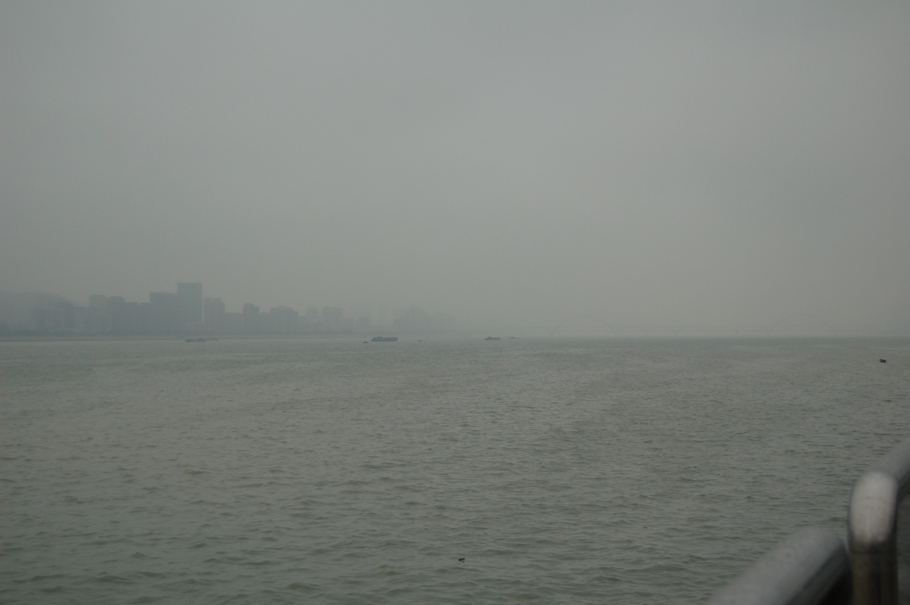 QianTang River In Rain 中文（中国大陆）: 雨中的钱塘江,复兴大桥在朦胧的背景中